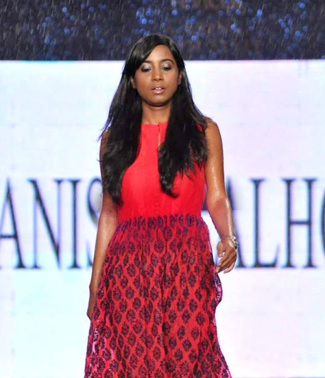 Shilpa Rao walks for Manish Malhotra's show for CPAA